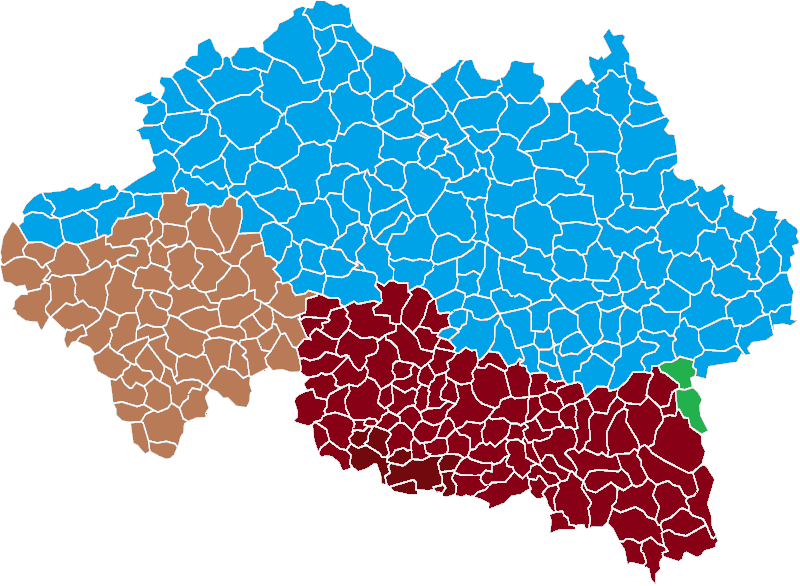 Oc language (red) [clear red : occitan marchois ; dark red : arverno-bourbonnais occitan] and Oïl language (blue) in Allier department by François Fontan. Green : francoprovençal/arpitan. Comunas dOc (en roge) et dOïl (en blau) dins l'Aleir/Borbonès per François Fontan. Communes doc (en rouge) et doïl (en bleu) dans le département de l'Allier. Enquête de 1977 selon François Fontan : "Tourtoulon ayant dû interrompre ici son enquête, nous devons nous contenter pour une certaine distance de la ligne approximative fournie par Ronjat. Notre frontière passe grosso modo entre Ste-Sévère et la Châtre, Culan et Loye. Pour ce qui est de la zone située entre le Cher et l’Allier, nous avons mené récemment (1977) une enquête minutieuse, en nous inspirant des méthodes utilisées par Mme Escoffier dans l’étude de la zone contigüe à l’Est de l’Allier (op. cit. ci-dessous). Nous avons donc recherché commune par commune la présence (ou l’absence) de traits phonétiques et morphologiques occitans suivants : conservation de “ a ” tonique ; passage à “ b ” de “ p ” et “ p-r ” intervocaliques ; vocalisation de “ v ” provenant du mot latin “ plovere ”, “ pleuvoir ” ; vocalisation de “ l ” final ; pronom sujet de la première personne du singulier “ i ” ; pronom complément neutre “ zou ” ; deuxième personne du pluriel du présent de être “ sé ” " François Fontan.